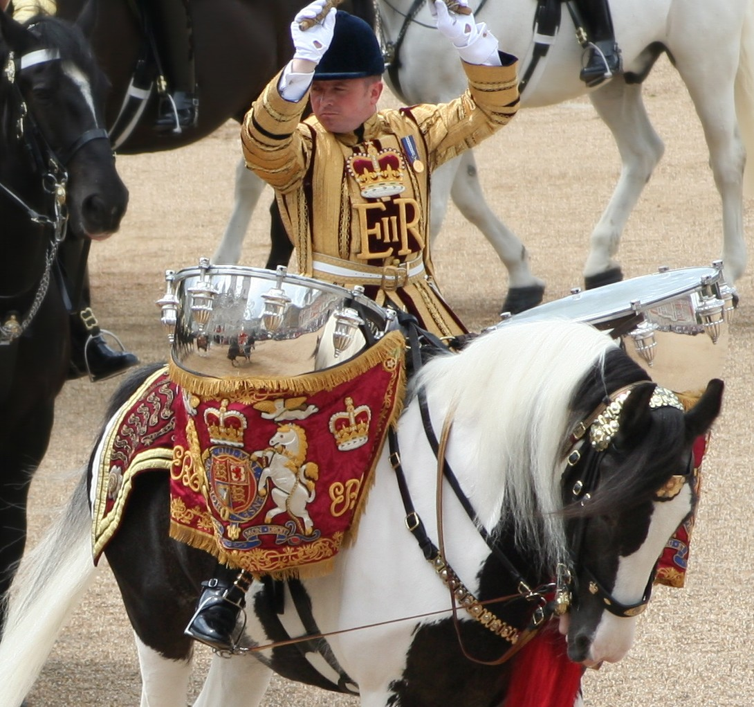 Massed Mounted Band Trooping the Colour, crop of original pic.